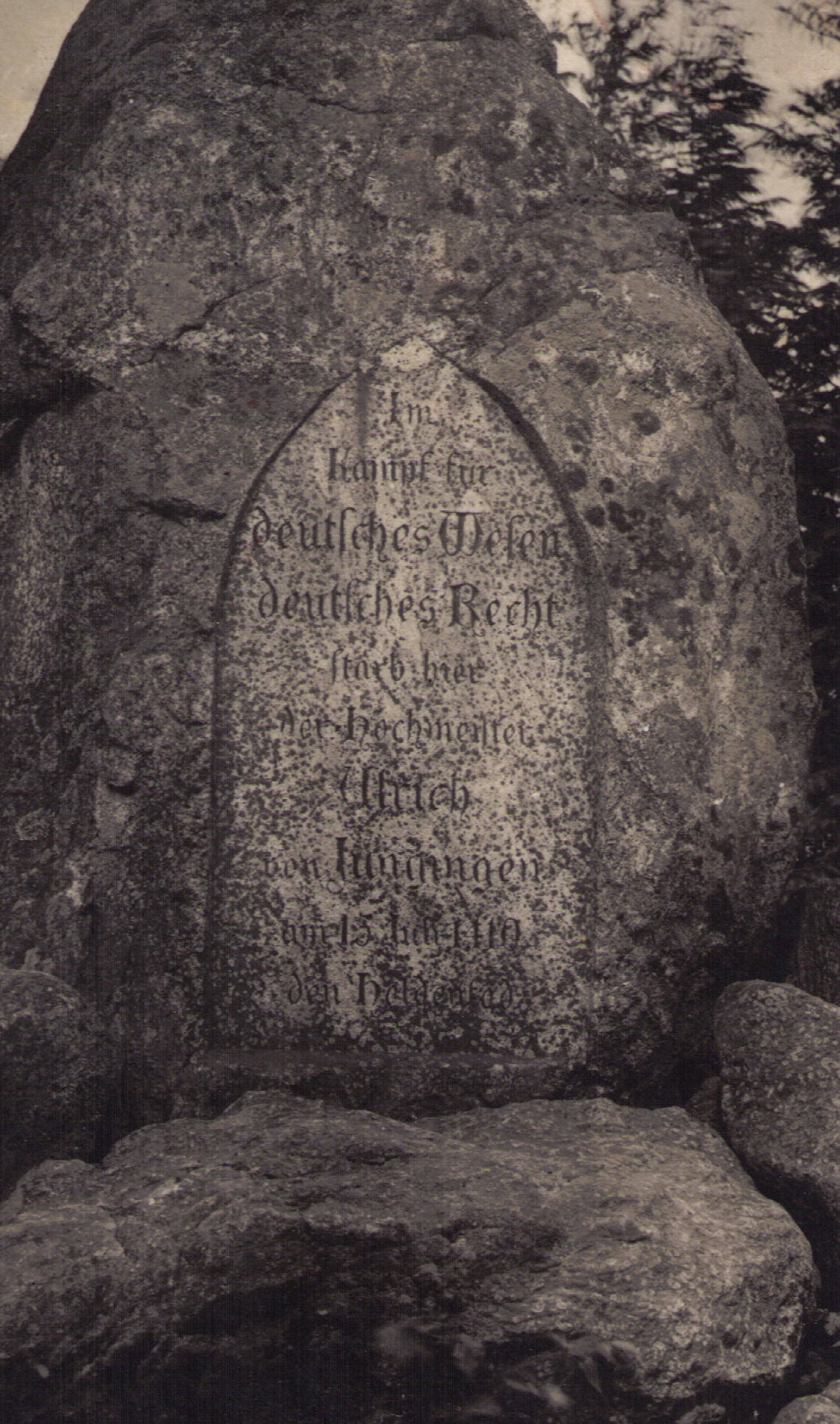 Jungingenstein memorial of 1901, in memory of Grand Master Ulrich von Jungingen, who fell in 1410 near Tannenberg/Grunwald. Postcard of 1912. Since 1945, the stone is toppled over.